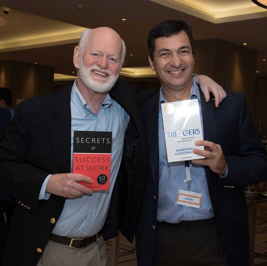 Nigel Cumberland with Marshall Goldsmith in Dubai on September 6th 2015. Exchanging copies of each other's latest books